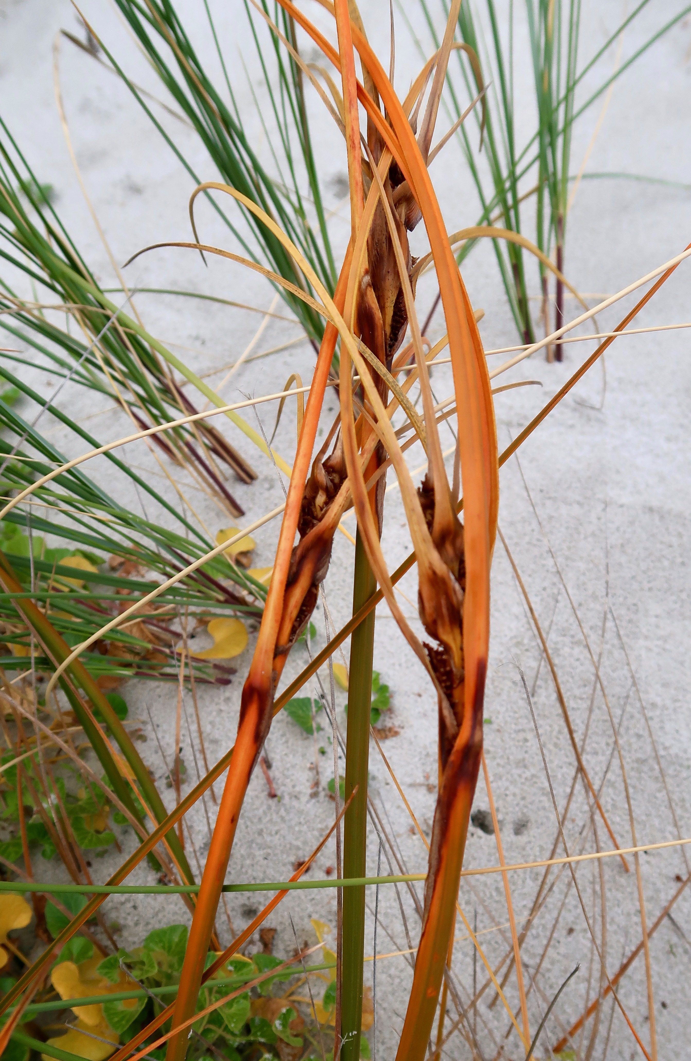 Seed heads and bracts of pīngao (Ficinia spiralis (Q7265030)) growing at Ocean View, Otago, New Zealand